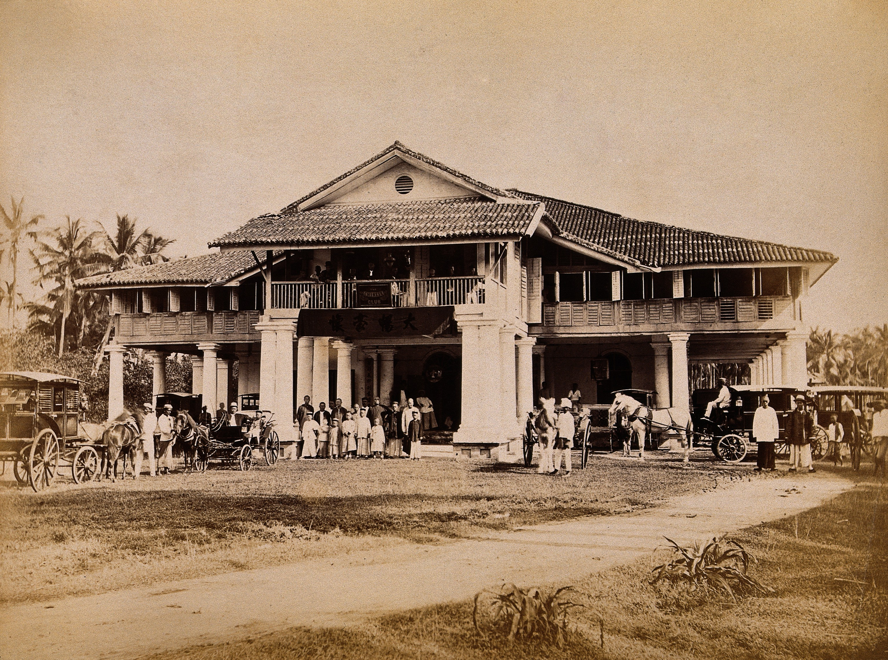 Malaysia: Chinese merchants and carriages outside their club house on Penang Island. Photograph by J. Taylor, 1881. Iconographic Collections Keywords: John Edmund Taylor